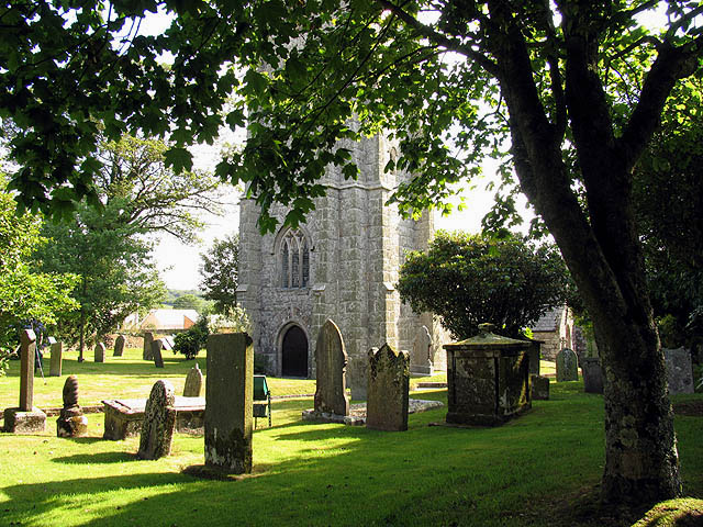 Parish Church of St Stephen's-in-Brannel. The church in the morning sunlight.